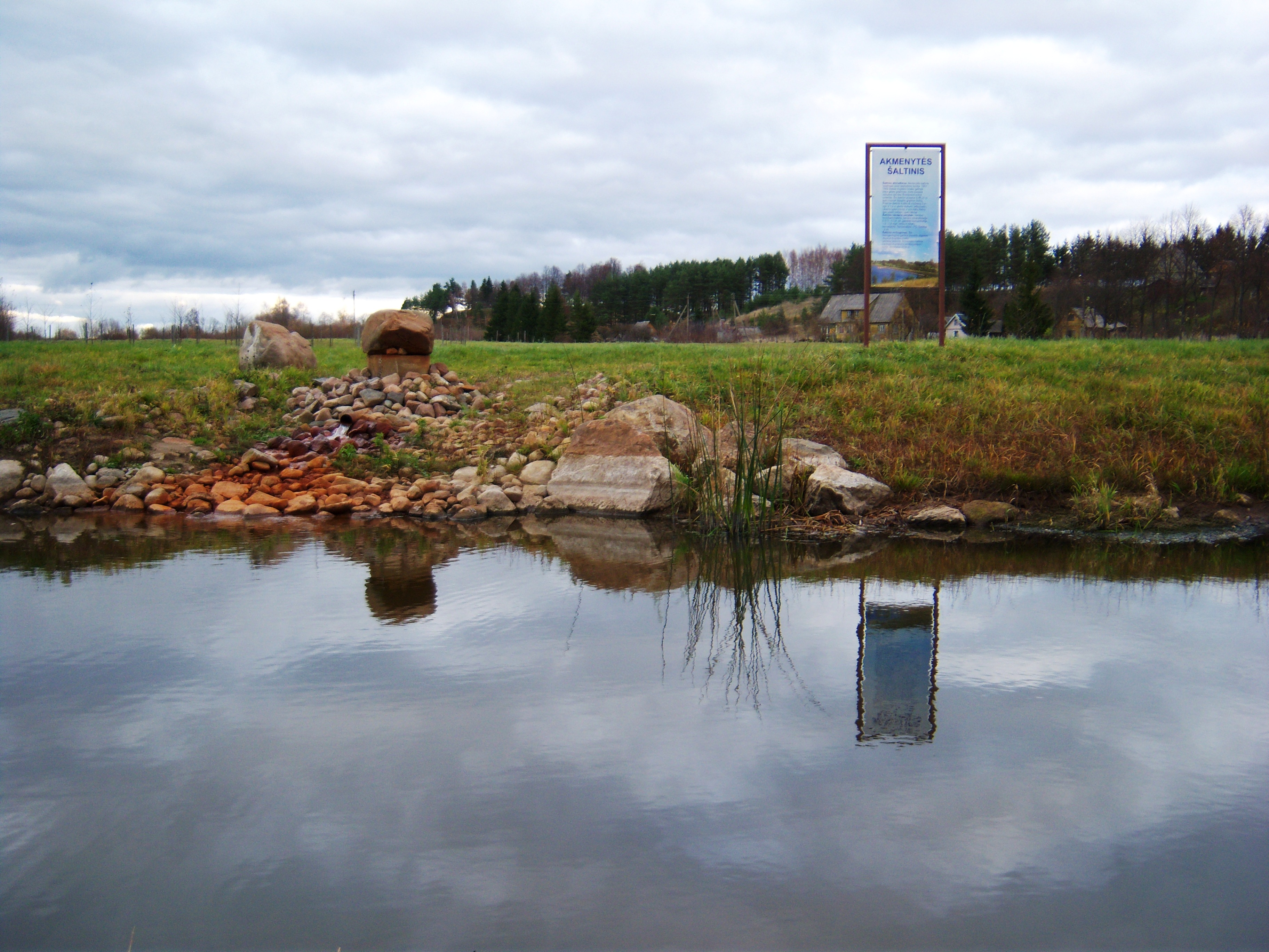 Akmenytė spring, Kupiškis, Lithuania